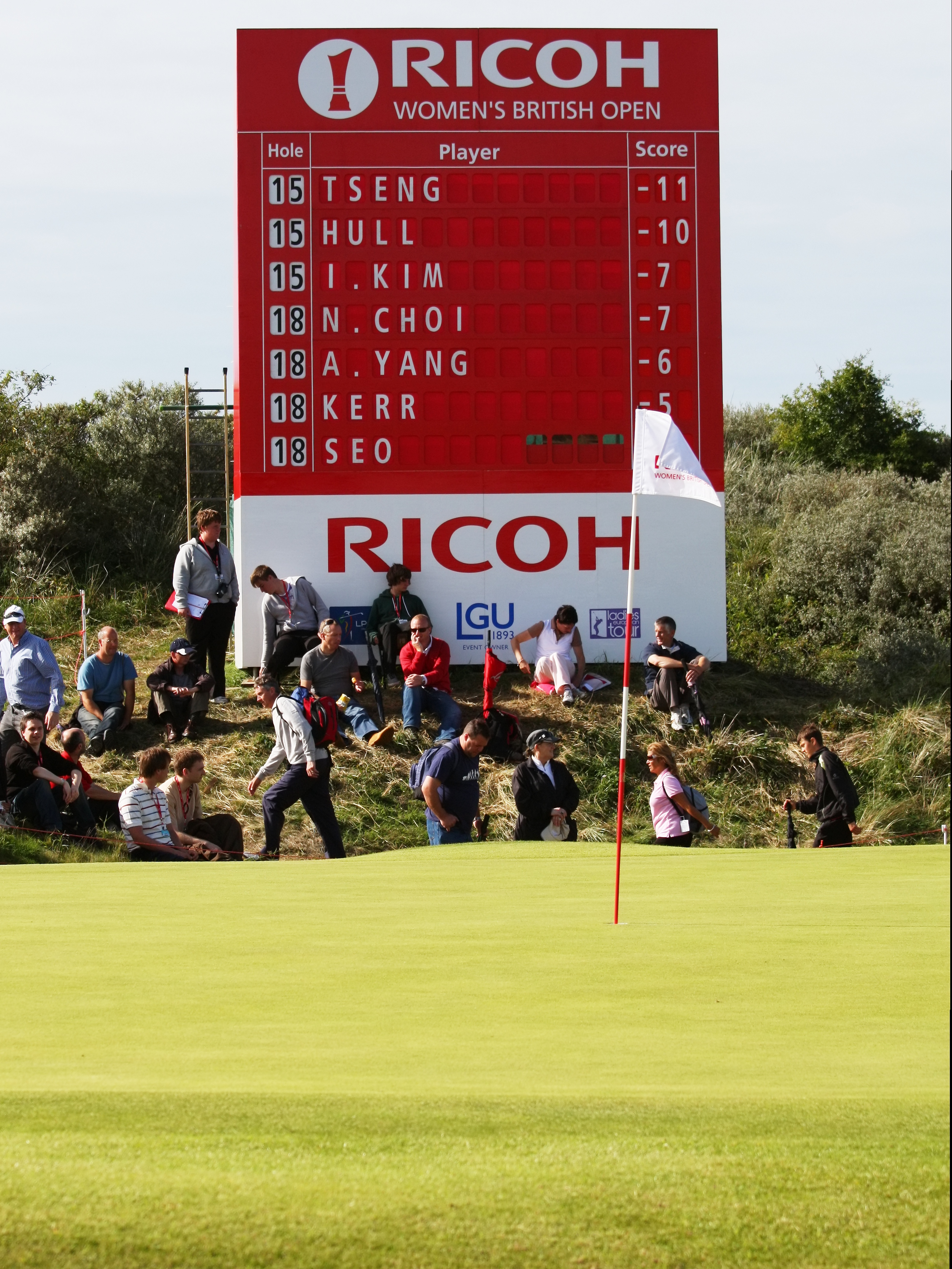 SOUTHPORT, UNITED KINGDOM - AUGUST 01: A view of the leaderboard next to the 16th green during final round of 2010 Ricoh Women's British Open held at Royal Birkdale on August 1, 2010 in Southport, England. (Photo by Wojciech Migda)